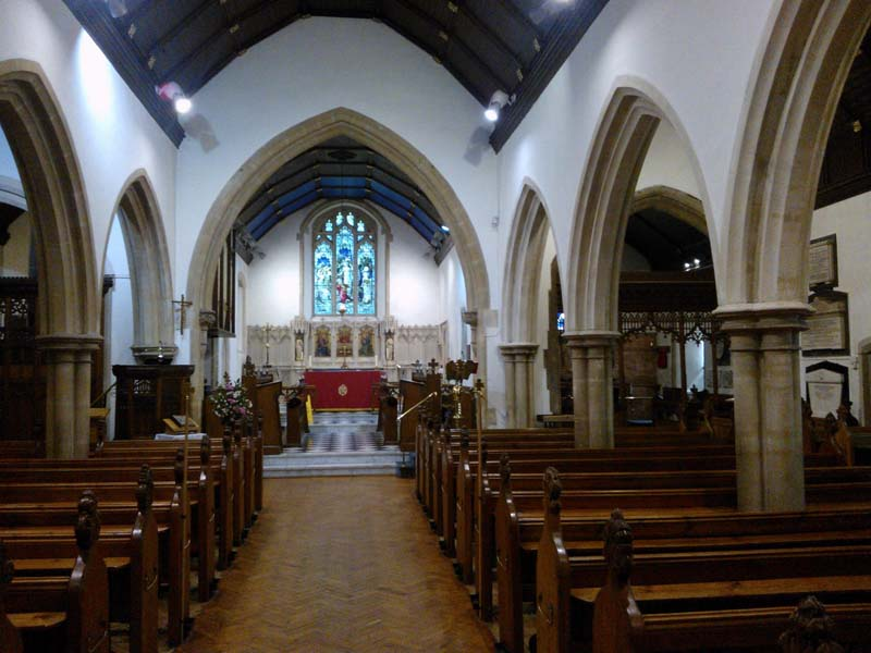 Interior of St Isan's Church, Llanishen, Cardiff, looking towards the chancel with the south aisle to the right